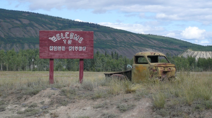 Ross River Welcome